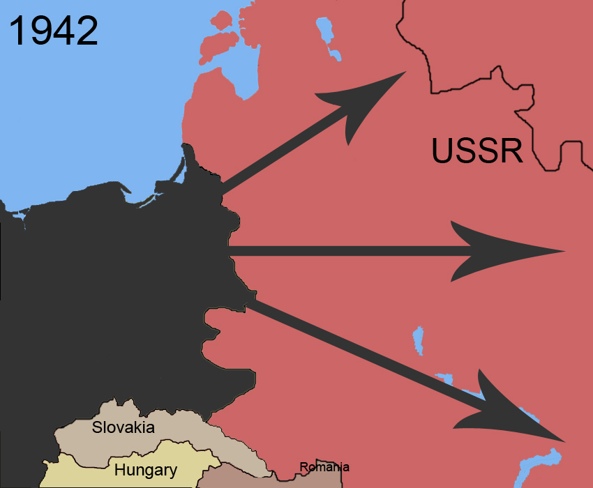 Operation Barbarossa (German:Unternehmen Barbarossa) was the code name for Nazi Germany's invasion of the Soviet Union during World War II that commenced on 22 June 1941.[10][11] Over 4.5 million troops of the Axis powers invaded the USSR along a 2,900 kilometer front (1800 miles).[12] The operation was named after the Emperor Frederick Barbarossa of the Holy Roman Empire, a leader of the Third Crusade in the 12th century. The planning for Operation Barbarossa started on 18 December 1940; the secret preparations and the military operation itself lasted almost a year, from the spring of 1940, through the winter of 1941.